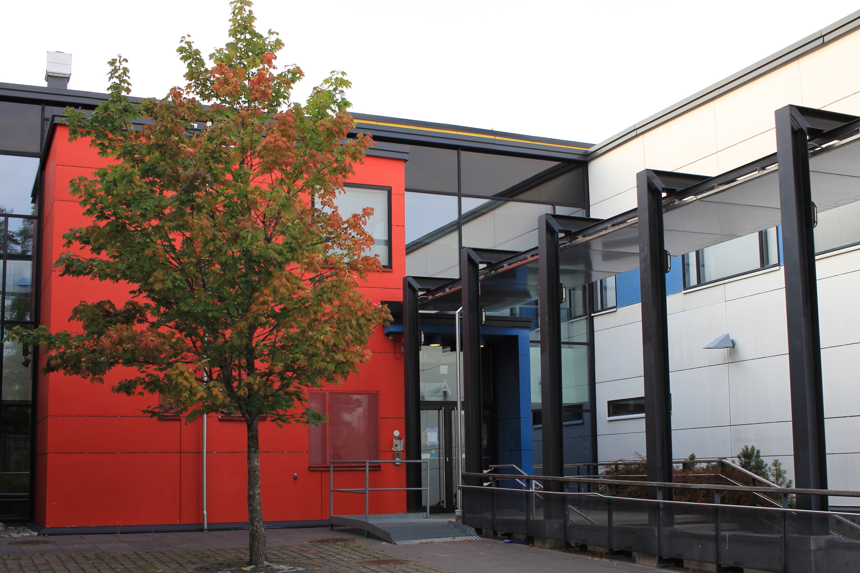 Martinkallio joint comprehensive school, Espoo, Finland. - School main entrance.